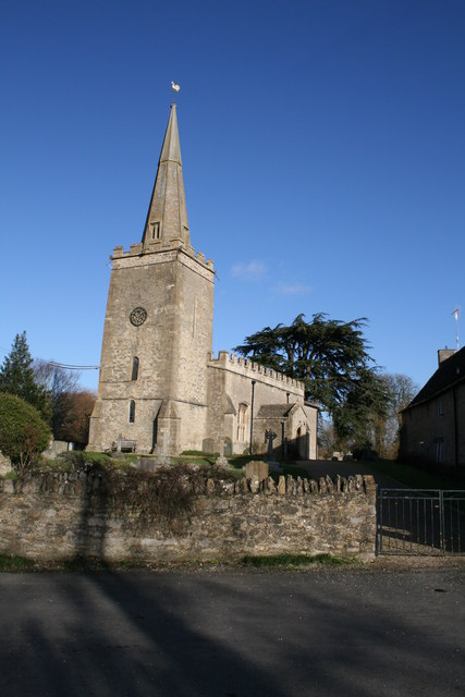 Church of England parish church of St Faith, Shellingford, Oxfordshire (formerly Berkshire): view from the southwest